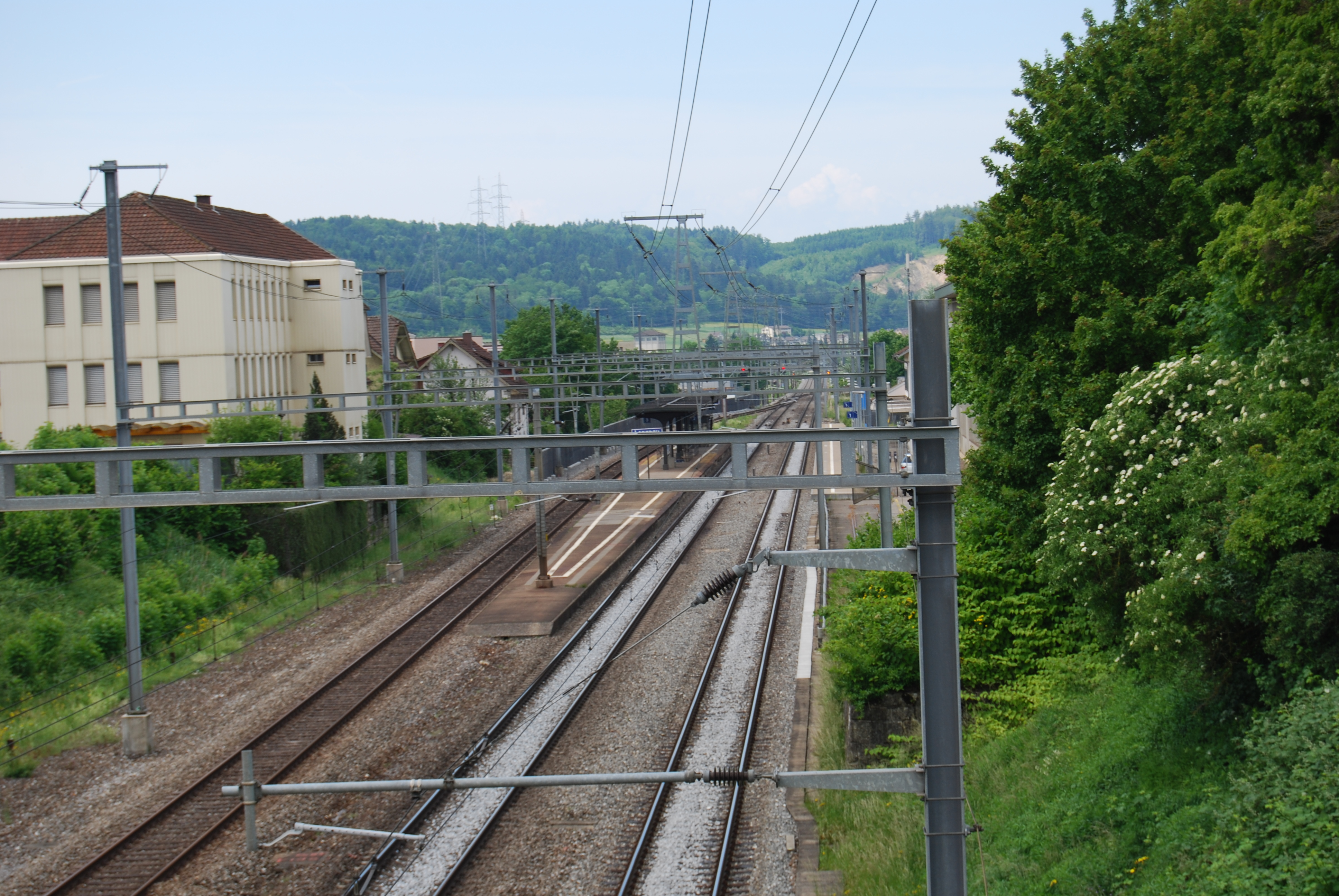 Train station of Lengnau, canton of Bern, Switzerland